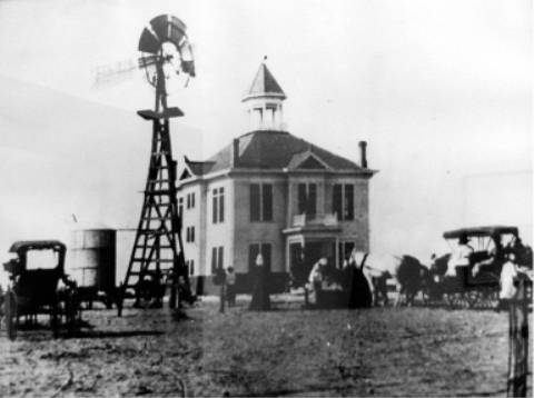 This is a photograph of the old Winkler County Courthouse in Kermit, Texas. It was built in 1910; sold to the Community Church of Kermit, Texas in 1929; and was demolished either in 1937 or 1938.